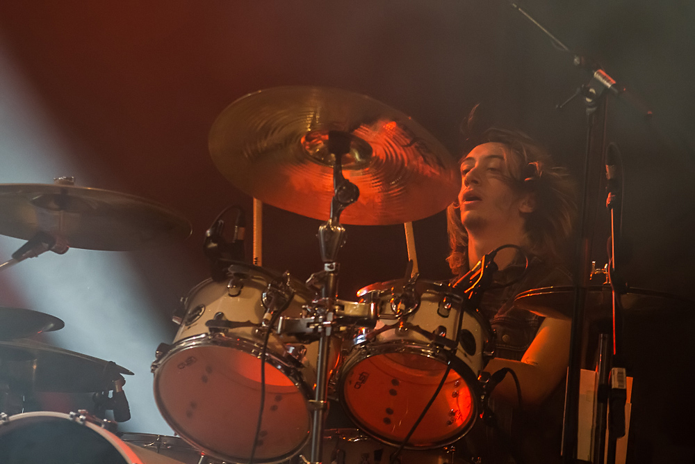 Soulfly - Rock Harz 2013 - 12-07-2013